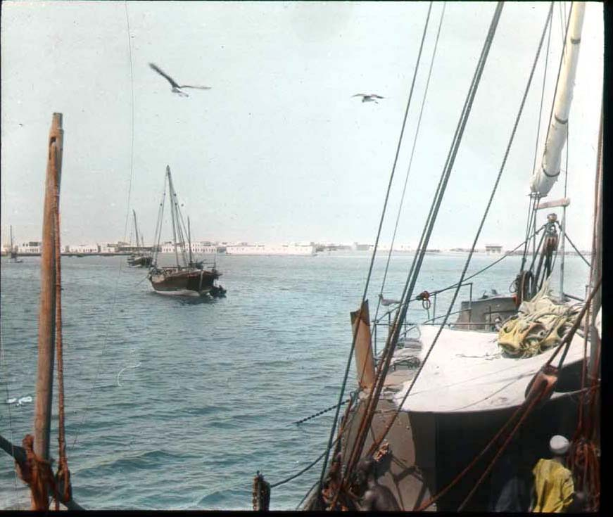 View of approaching ship and Berbera from deck of the boat called Tuna. 1896. Name of Expedition: Africa Expedition Participants: D.G. Elliot and Carl Akeley Expedition Date: 1896 Purpose or Aims: Zoology Mammals Location: Africa, Somalia, Woqooyi Galbeed, Berbera Original material: Hand-colored glass lantern slide Digital Identifier: CSZ5873_LS Learn more about The Field Museum's Library Photo Archives.